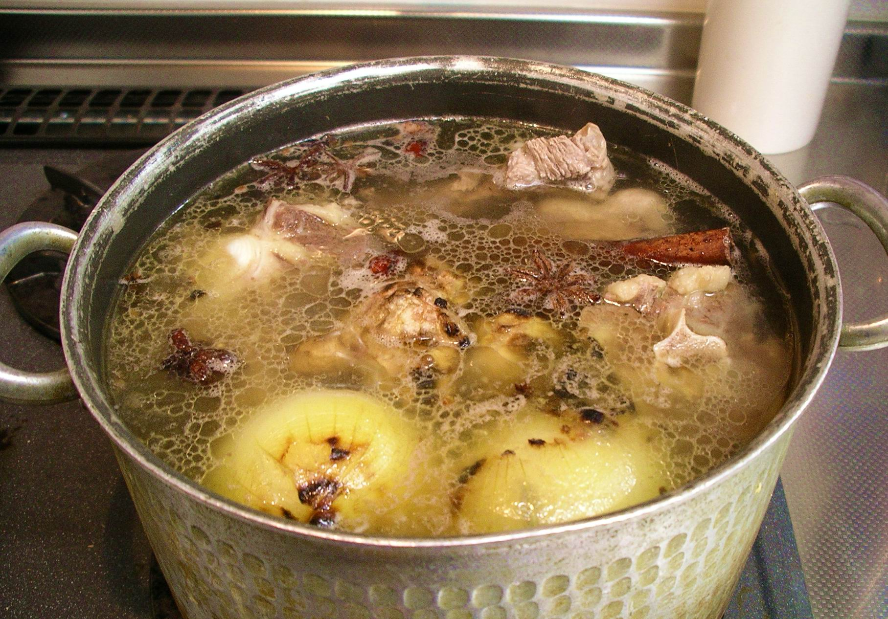 Making stock for pho bo (Vietnamese rice noodle soup with beef).For more, see here: Blue LotusPho bo